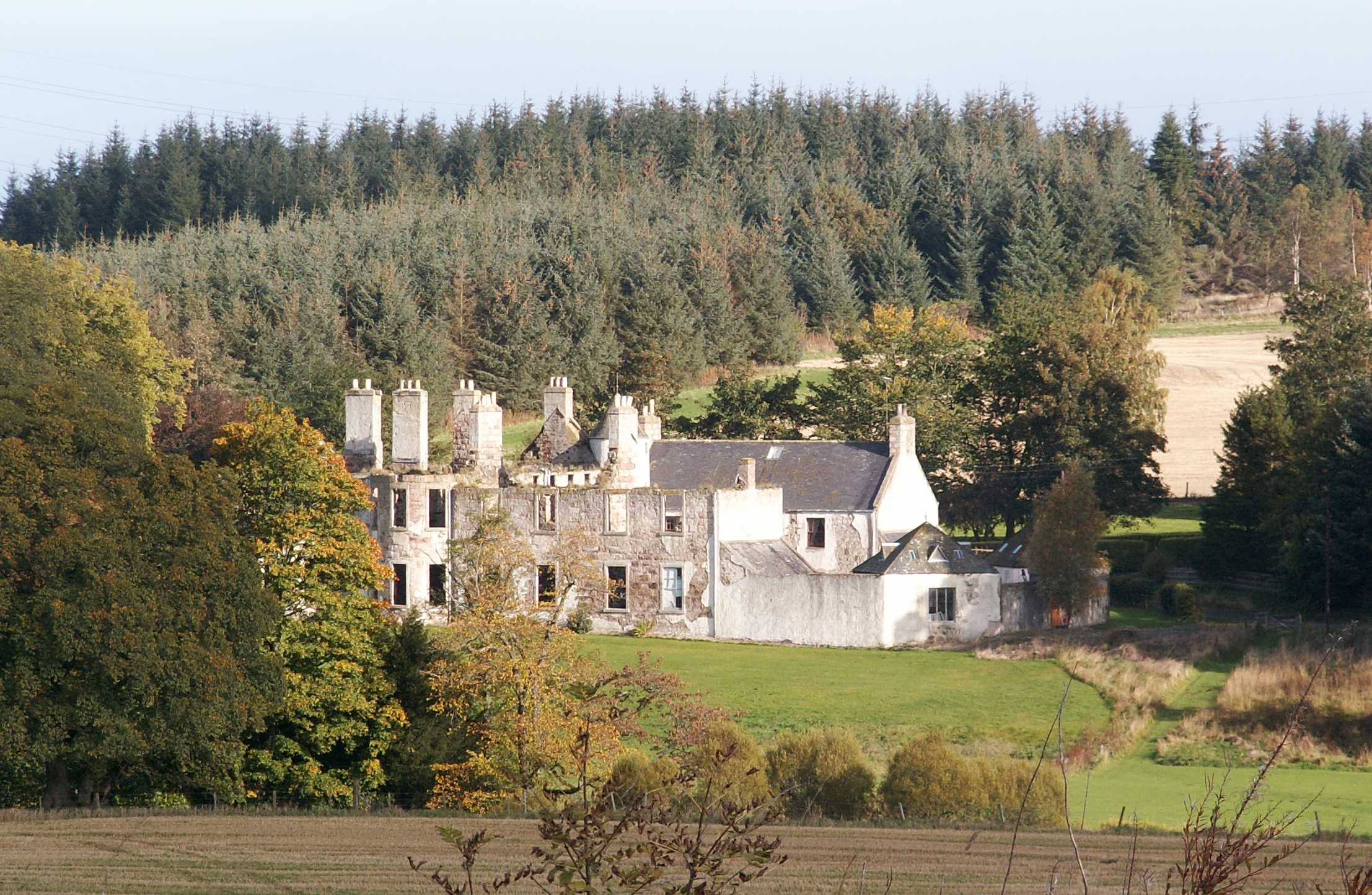 ruined house